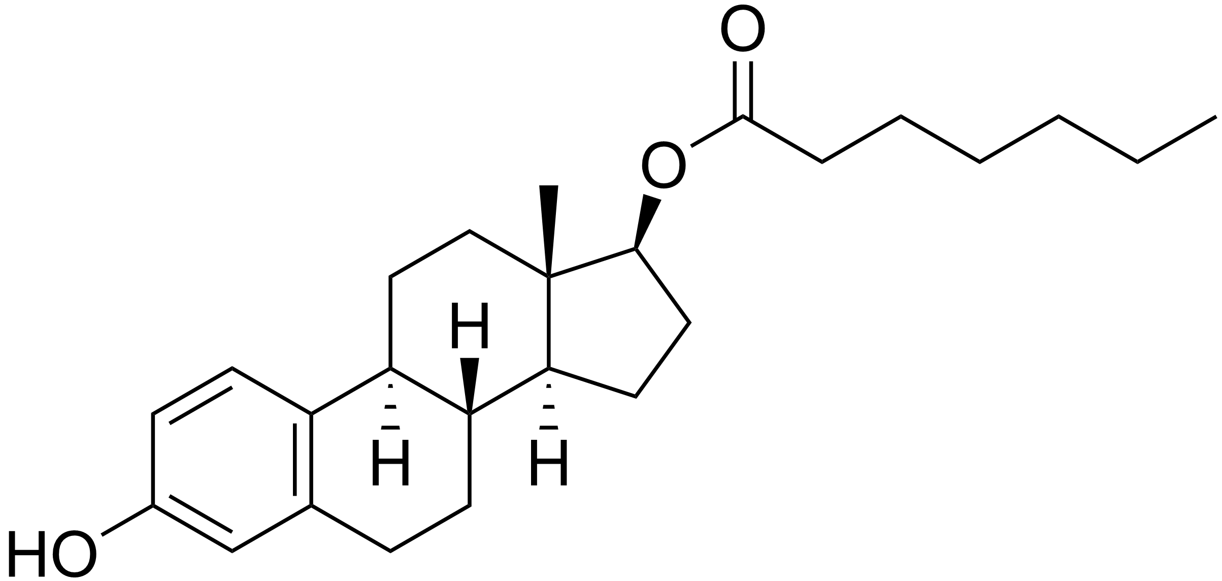 Chemical structure of estradiol enanthate